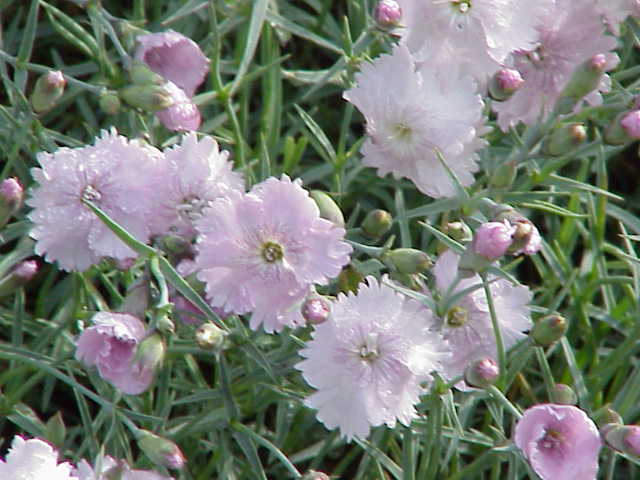 Species: Dianthus gratianopolitanus Family: Caryophylaceae Image No. 1